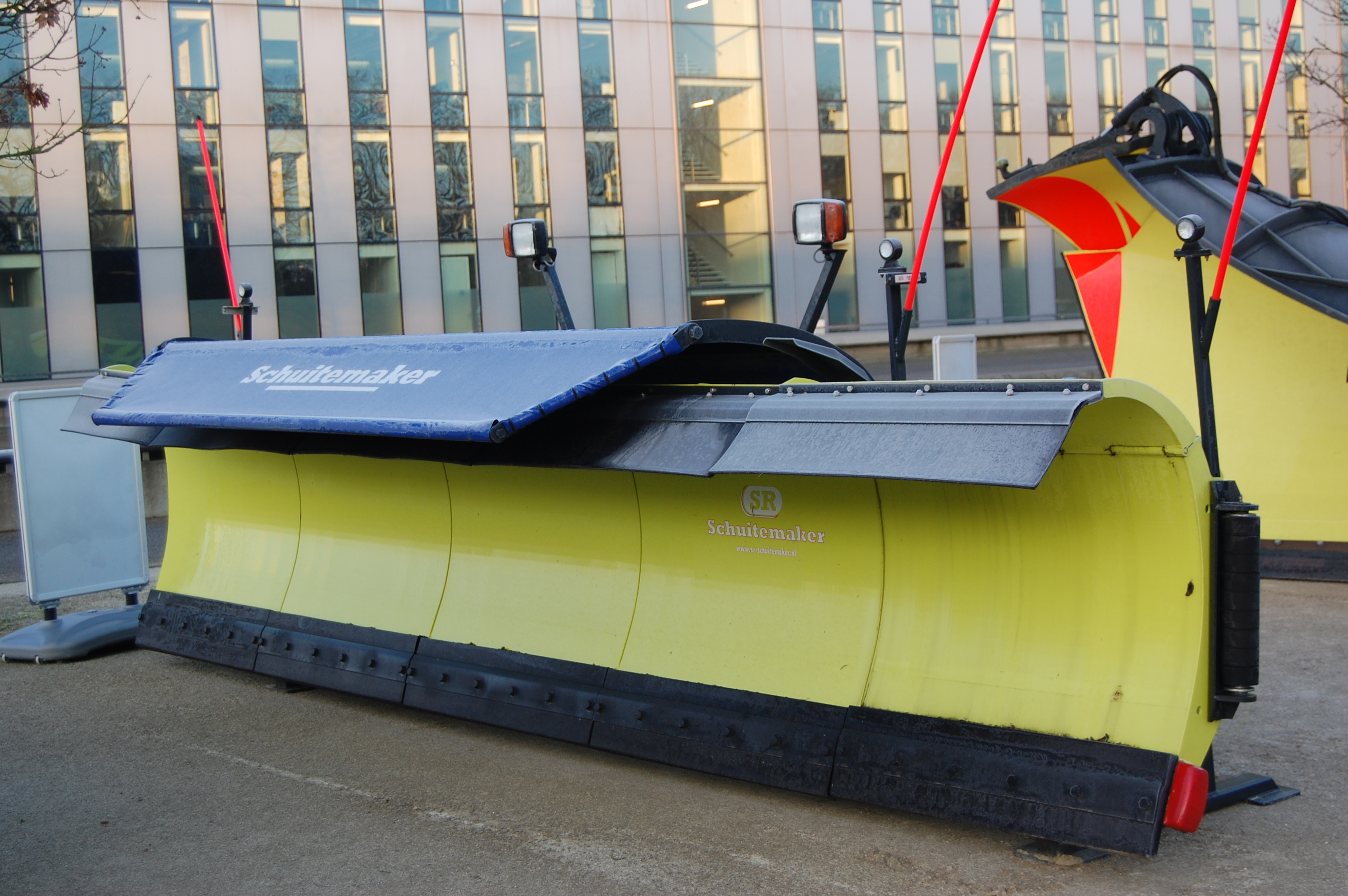 Snow removal tool of Rijkswaterstaat, The Netherlands